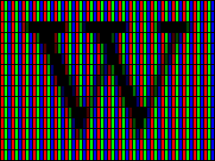 Capital letter "W" rendered with ClearType and enlarged using a program that displays the individual subpixels.